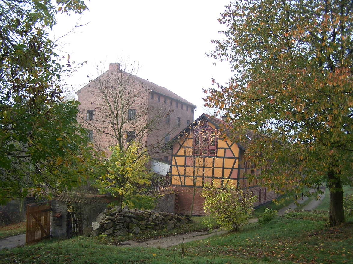 The Klapp mill at the Nesse river.